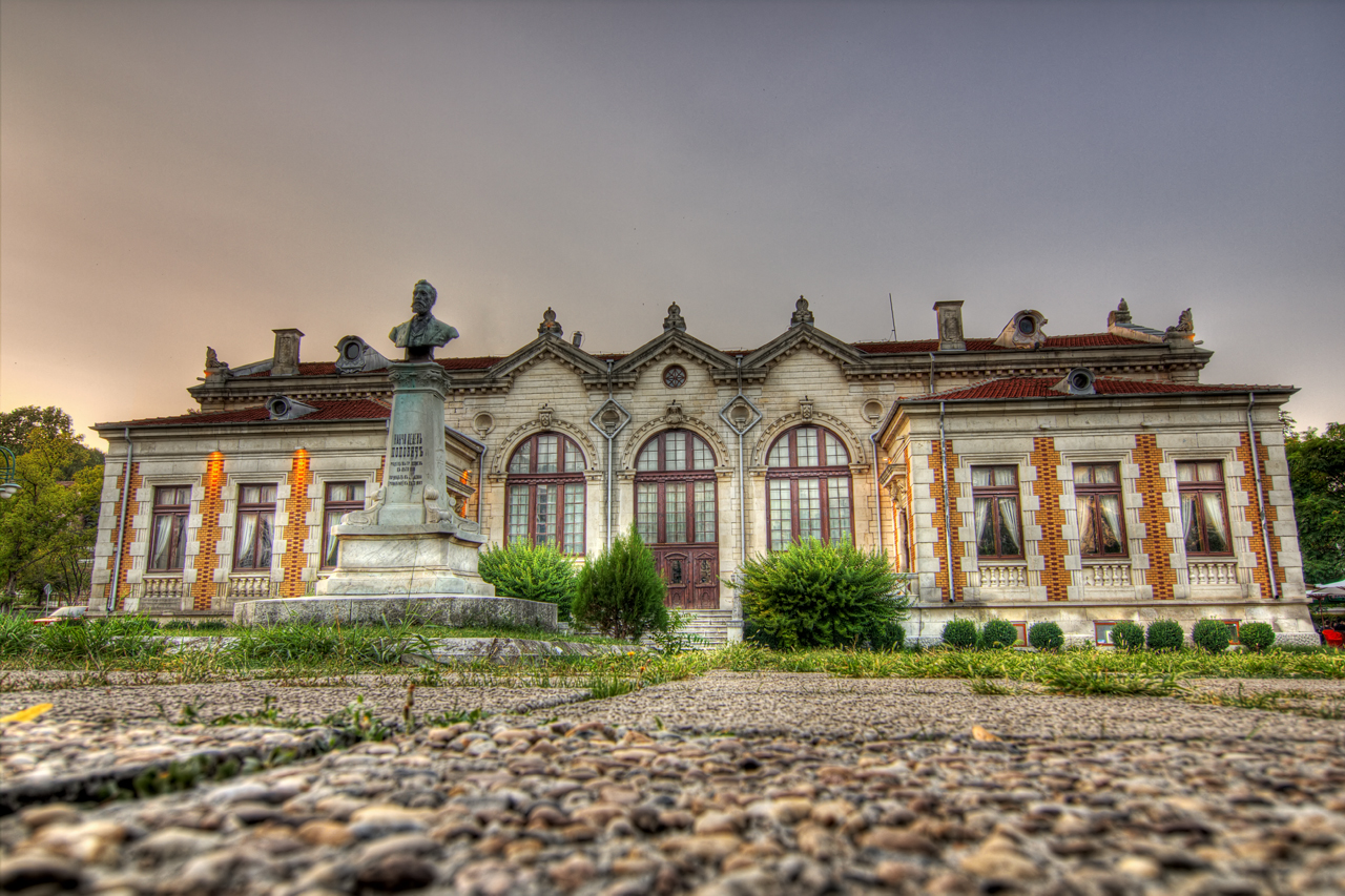 Shumen BG HDR from 3 Raw + PS CS3 Hit "L" to view on black or at full size in the drop-down menu, 1280 x 850 pixels. This image and many more from my Photostream are licensed under Creative Commons licence. Author: Salva Barbera. You can use this image on websites, blogs or any other media projects without my permission as long as you credit me as the Author. My images may not be used for any profane or immoral purpose or to incite violence or hatred. Please read the Creative Commons image licence guidelines before downloading.